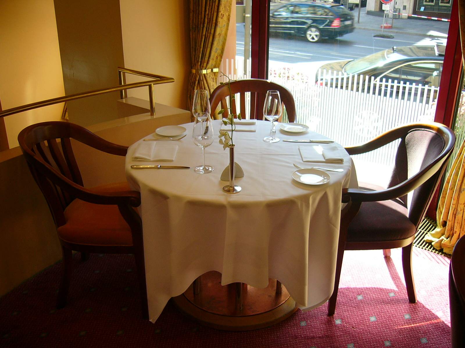 Table setting in a restaurant (seen in Munich, Germany).